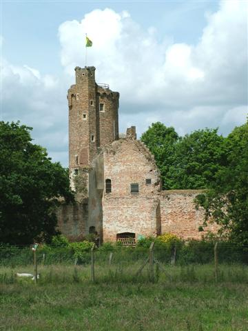 Caister Castle was a 15th-century moated castle situated in the parish of West Caister, some 5 km north of the town of Great Yarmouth in the English county of Norfolk (grid reference TG504123).